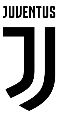 2017–20 logo and pictogram of Juventus Football Club.